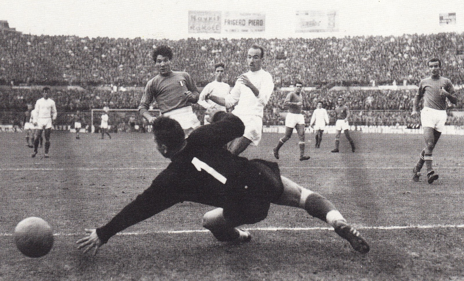 Turin (Italy), Communal Stadium, November 4, 1961. Italy — Israel 6-0, retour match of 1962 FIFA World Cup qualification, UEFA Group 7, Final round: Italian oriundo Enrique Omar Sívori scoring one of his four goals in the match.